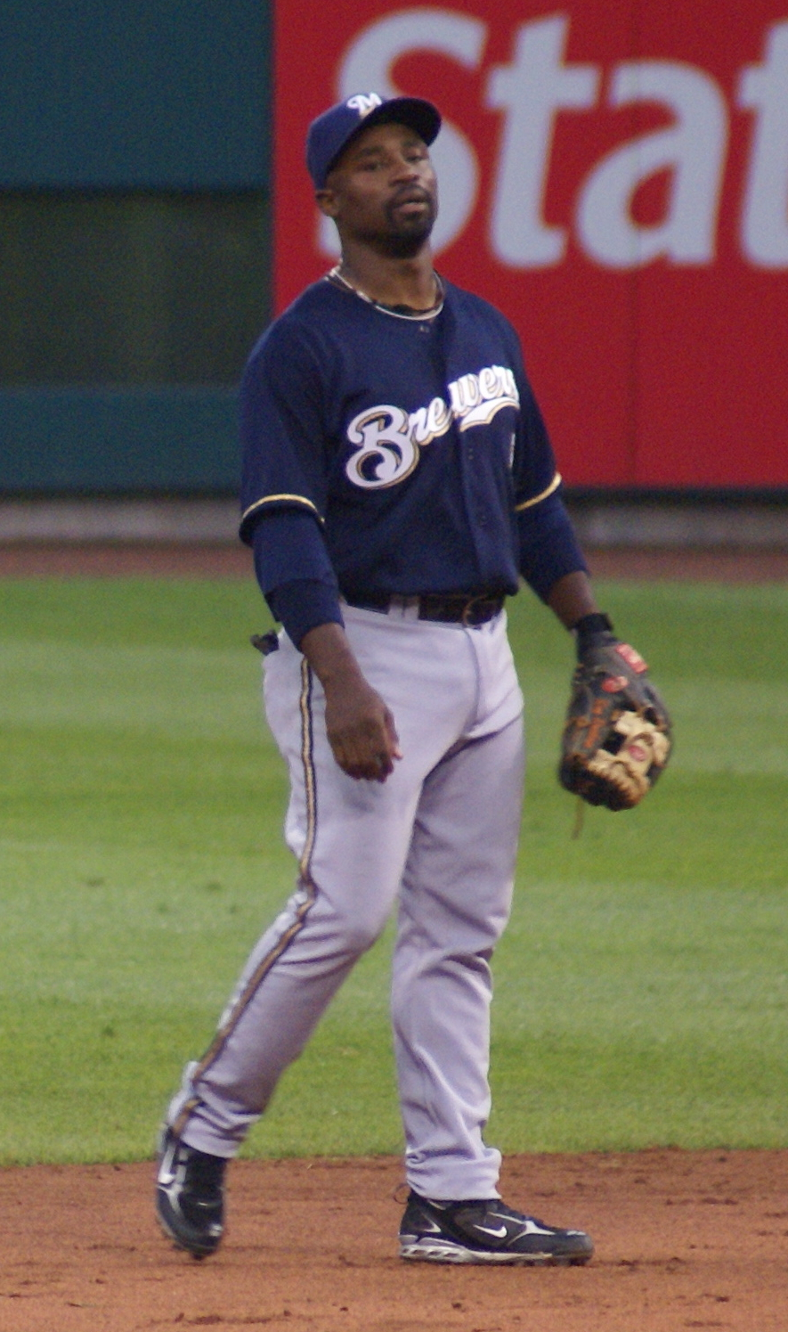 Ray Durham with the Milwaukee Brewers on July 24, 2008